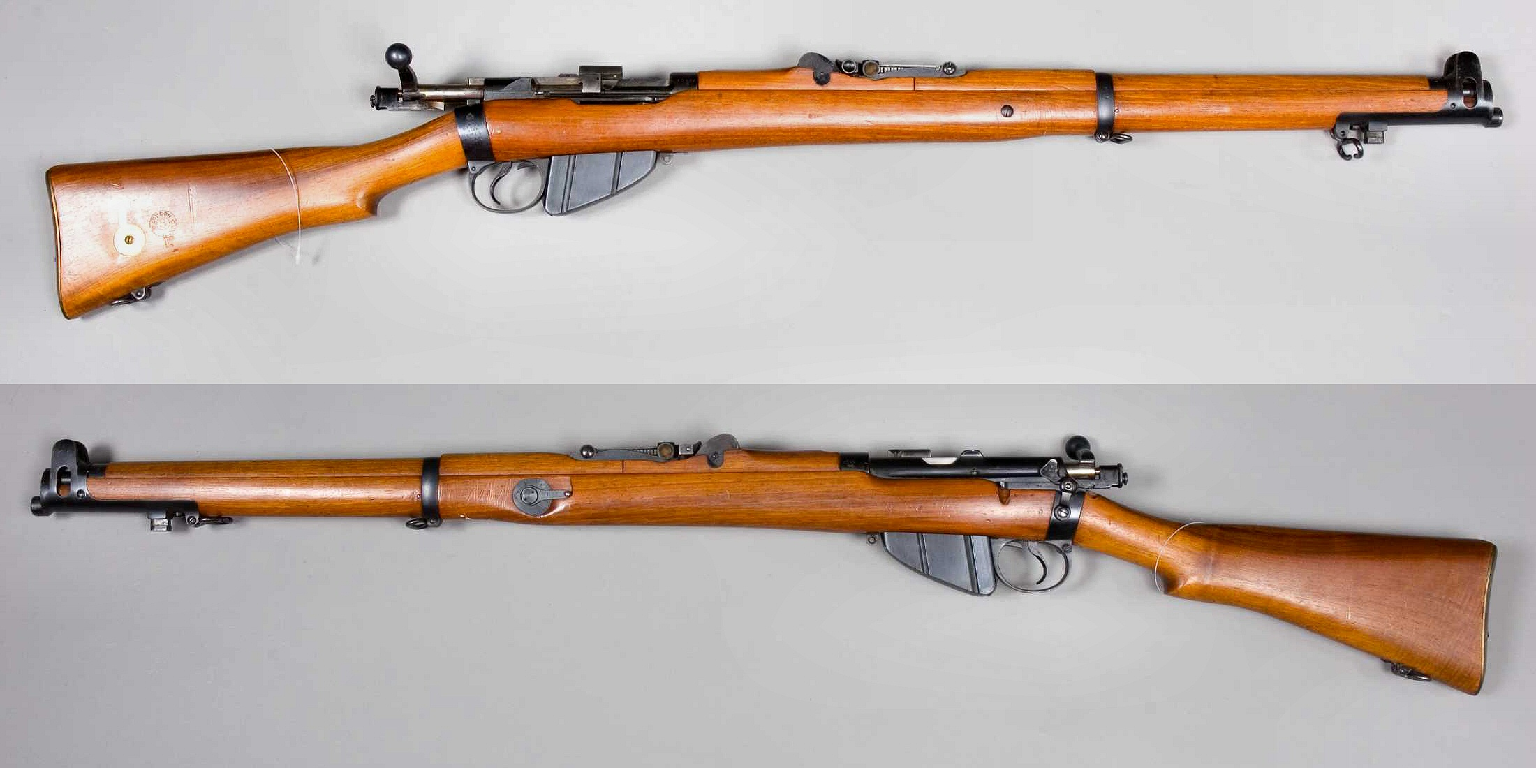 Short Magazine Lee Enfield Mk I (1903), UK. Caliber .303 British. From the collections of Armémuseum (Swedish Army Museum), Stockholm.